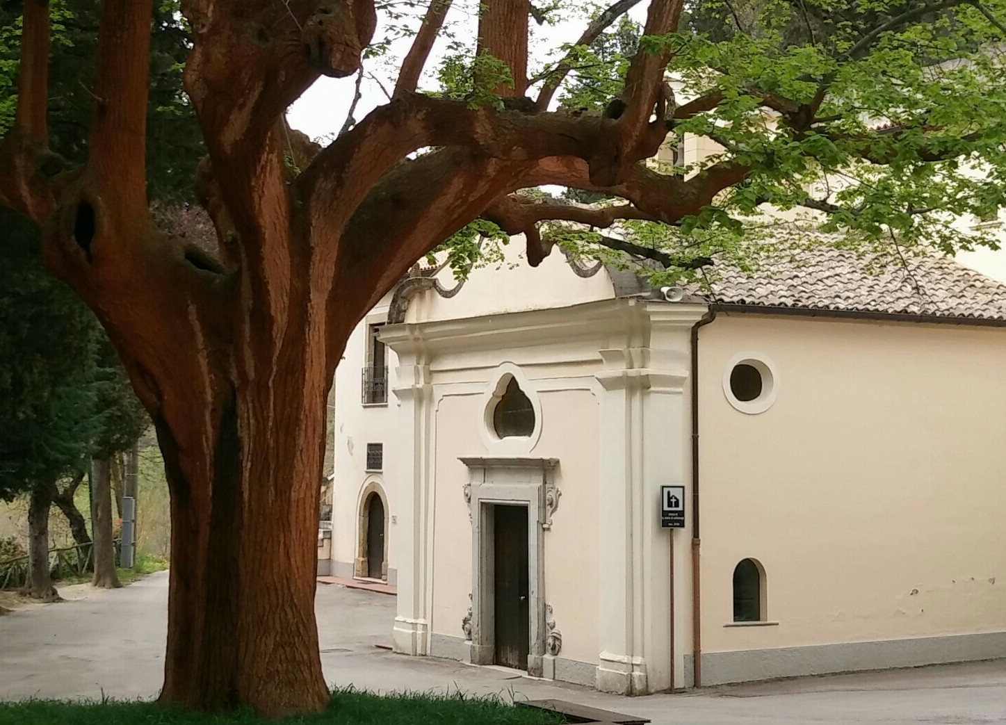 A lime-tree near Valleluogo shrine in Ariano Irpino, Italy